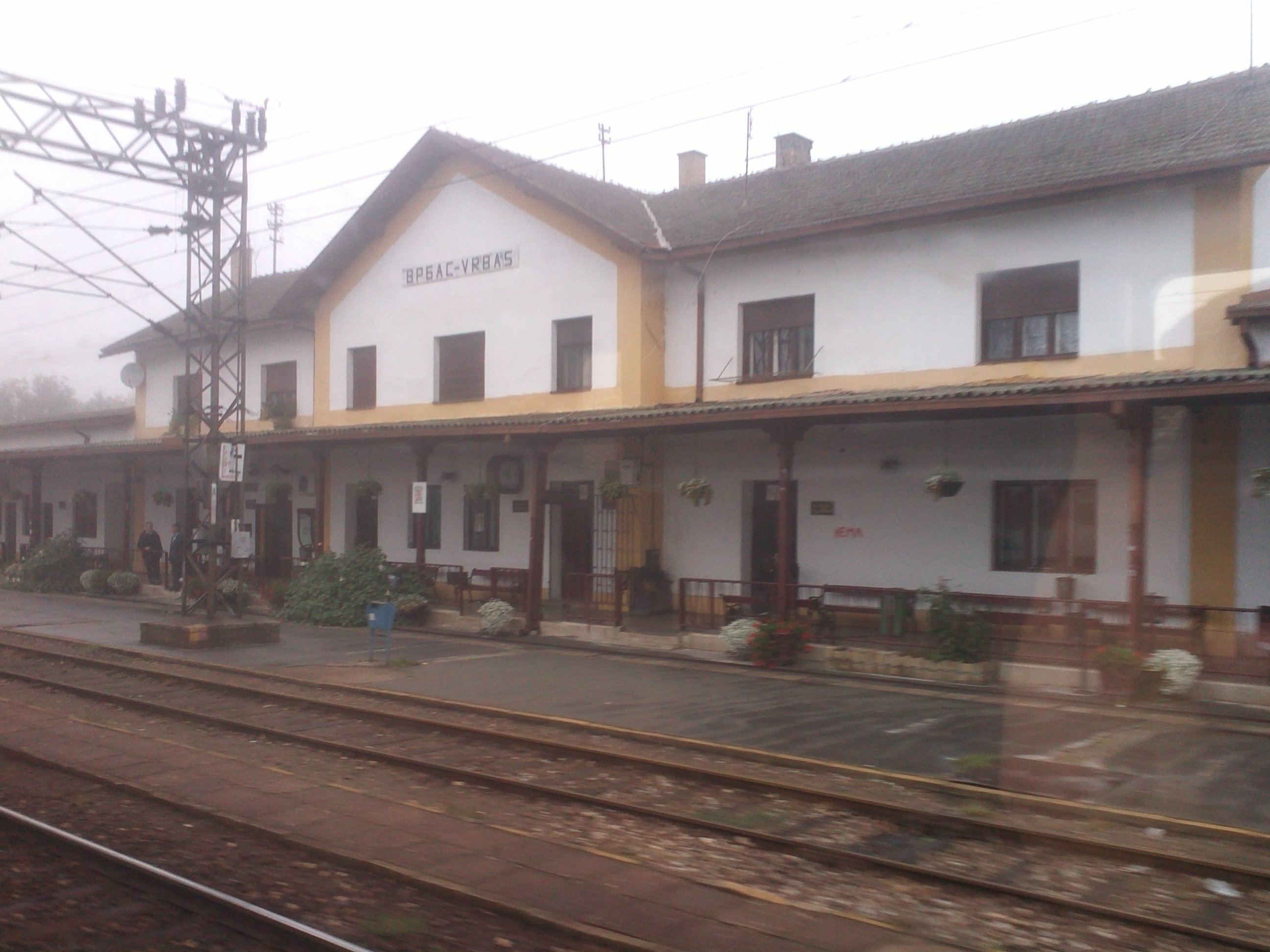 Vrbas train station, Serbia